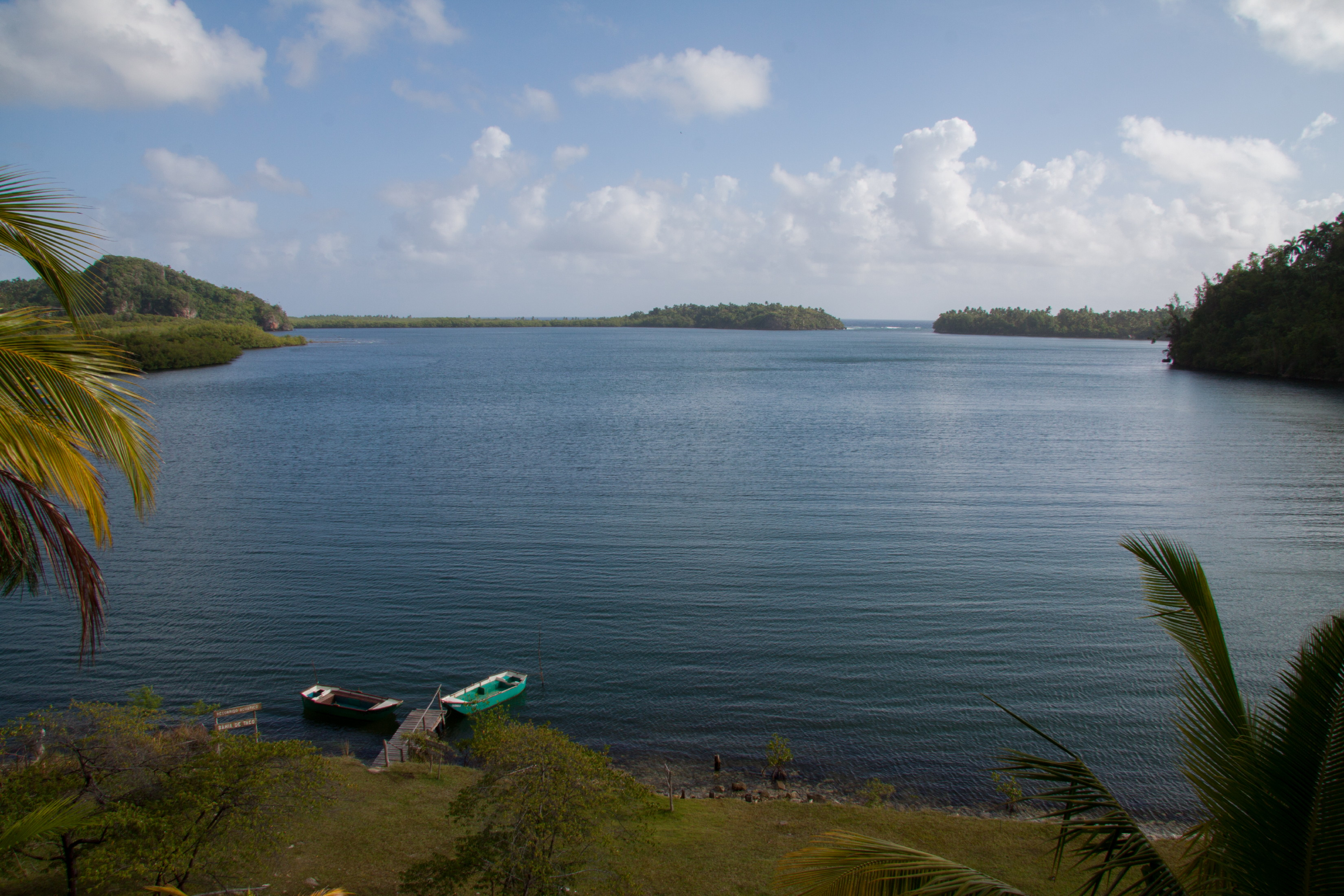 Bahía de Taco (Nibujón), habitat of the Manatees in Alejandro de Humboldt National Park